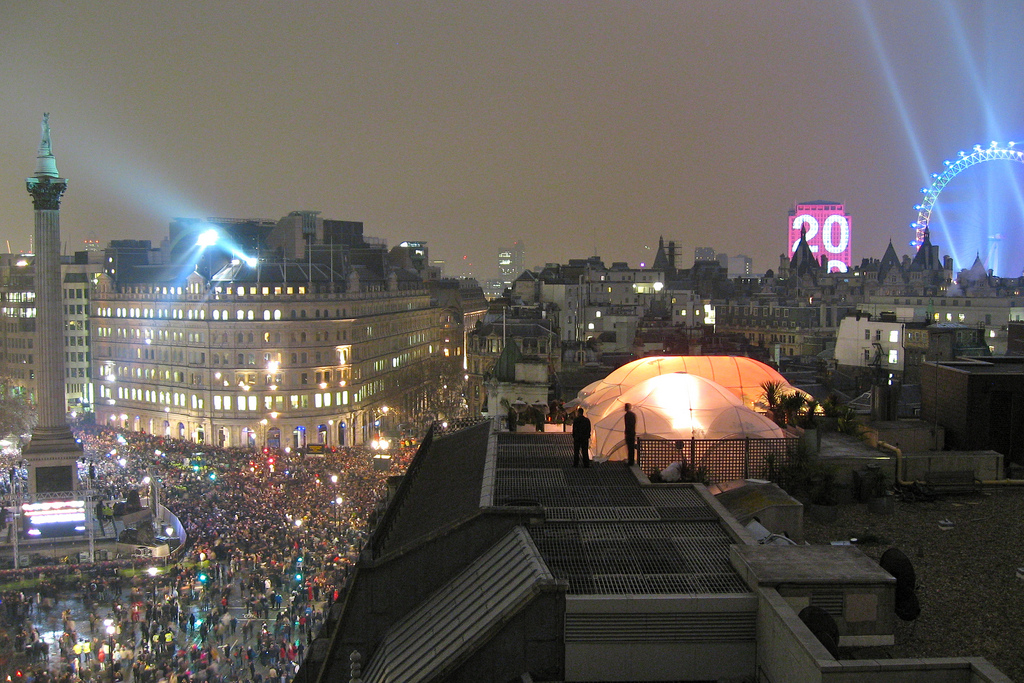 Crowds gathered in London's Trafalgar Square for New Year's Eve